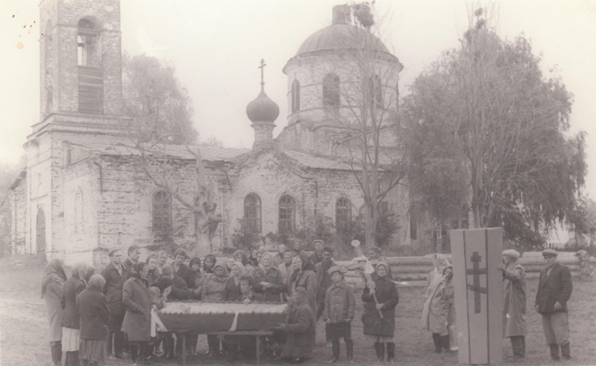 Funeral in the village Nevadevo of Nizhny Novgorod region, USSR, 1960th.